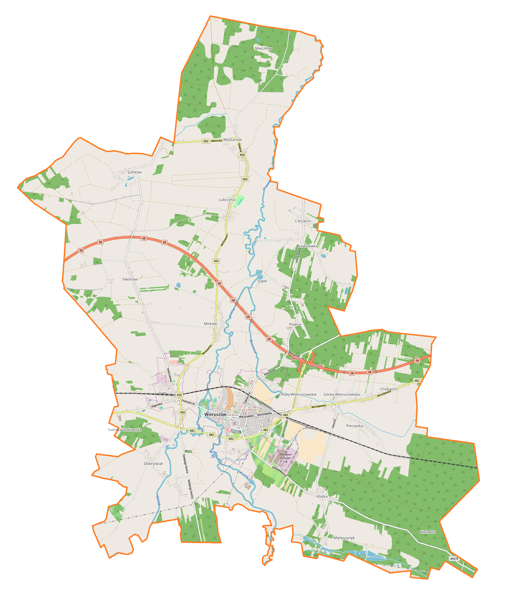 Location map